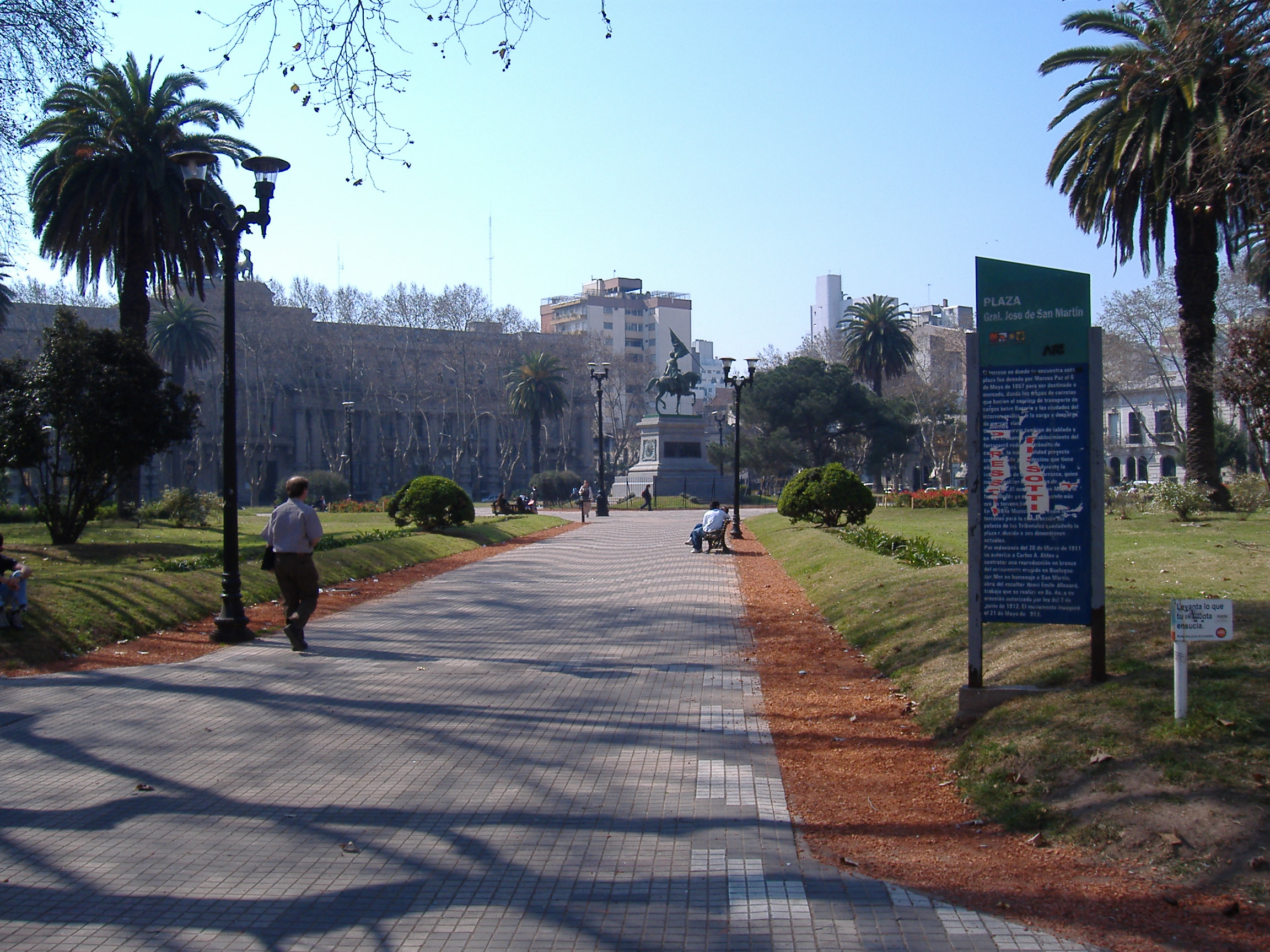 Plaza San Martín, an urban square in downtown Rosario, Argentina, by the Paseo del Siglo historic district. The name is an homage to independence war hero General José de San Martín.